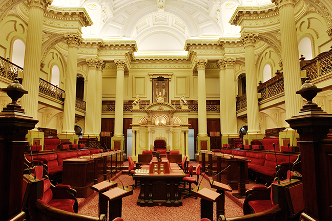 An aerial view of the Victorian Legislative Council chamber while it is empty.